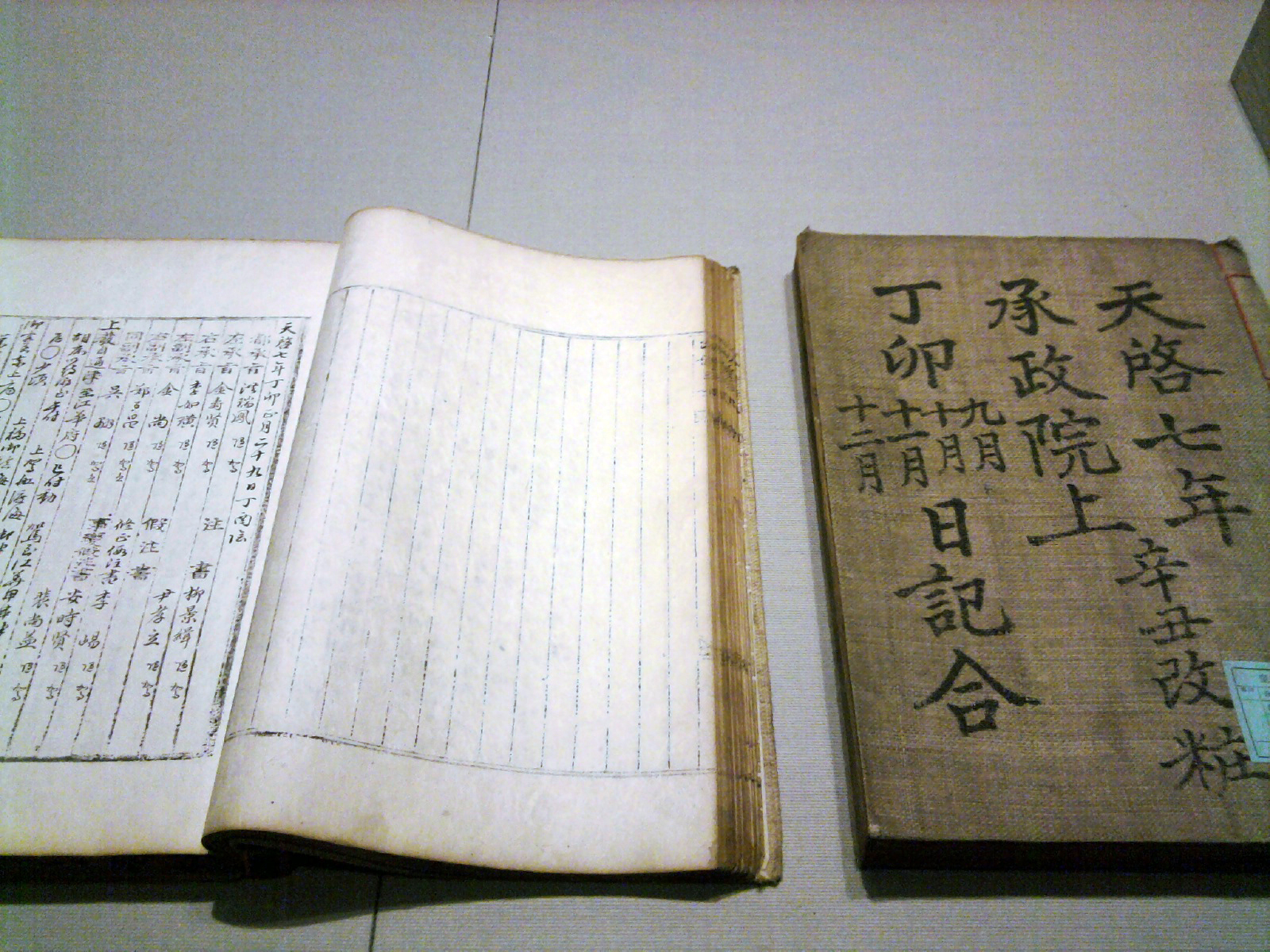 Journal of the Royal Secretariat displayed in Seoul National University Kyujanggak Institute for Koreanology Studies